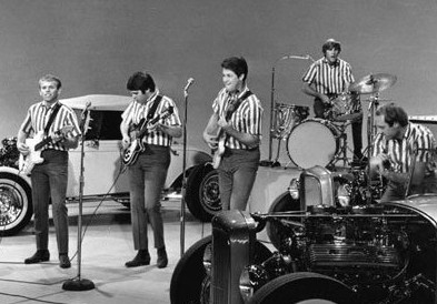 The Beach Boys on The Ed Sullivan Show performing 'I Get Around'.